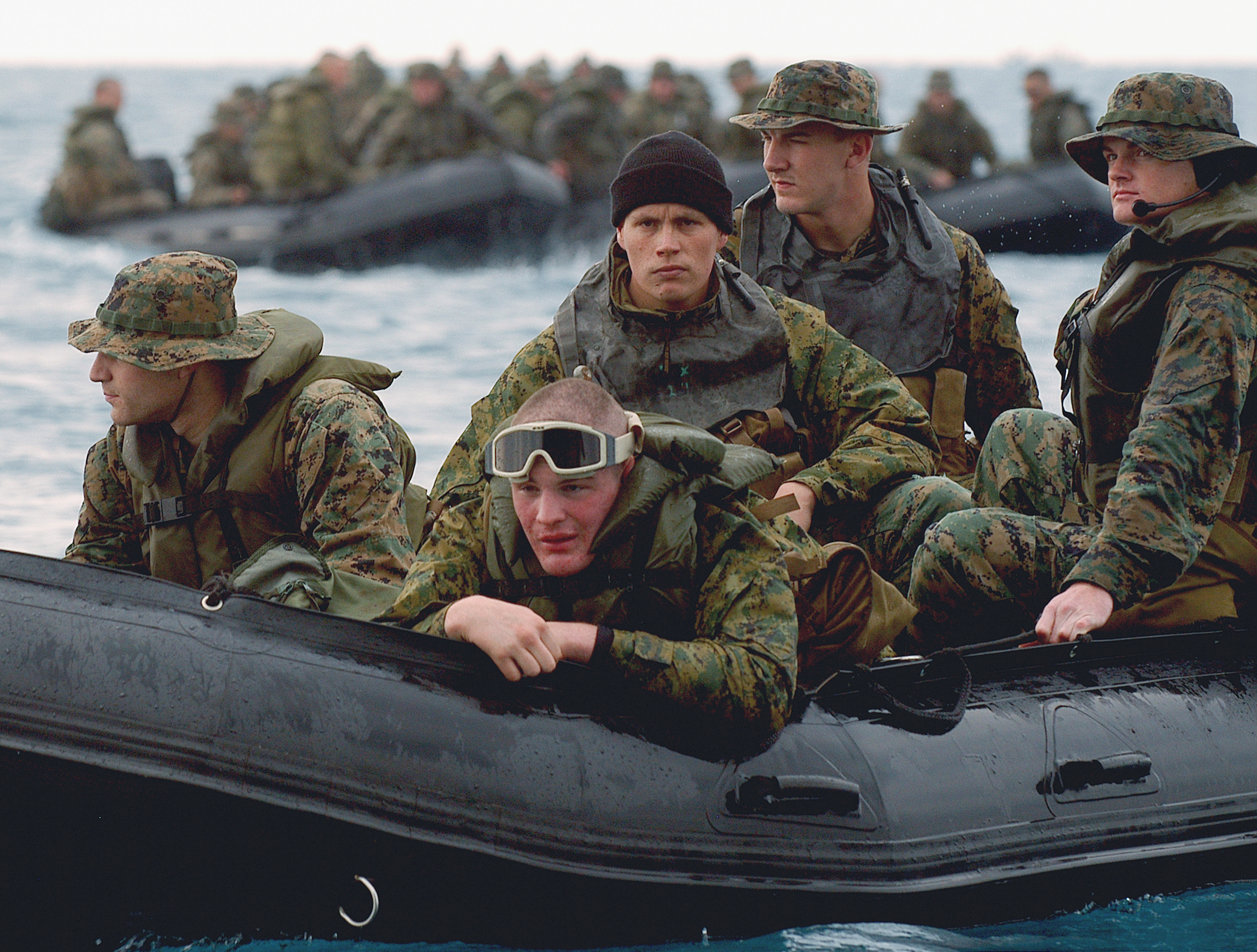 PACIFIC OCEAN (Feb. 7, 2008) Marines assigned to Fox Co., 2nd Battalion, 4th Marine Regiment, embarked on the dock landing ship USS Harpers Ferry (LSD 49), prepare for an amphibious landing near Okinawa, Japan. U.S. Navy photo by Mass Communication Specialist 2nd Class Joshua J. Wahl (Released)